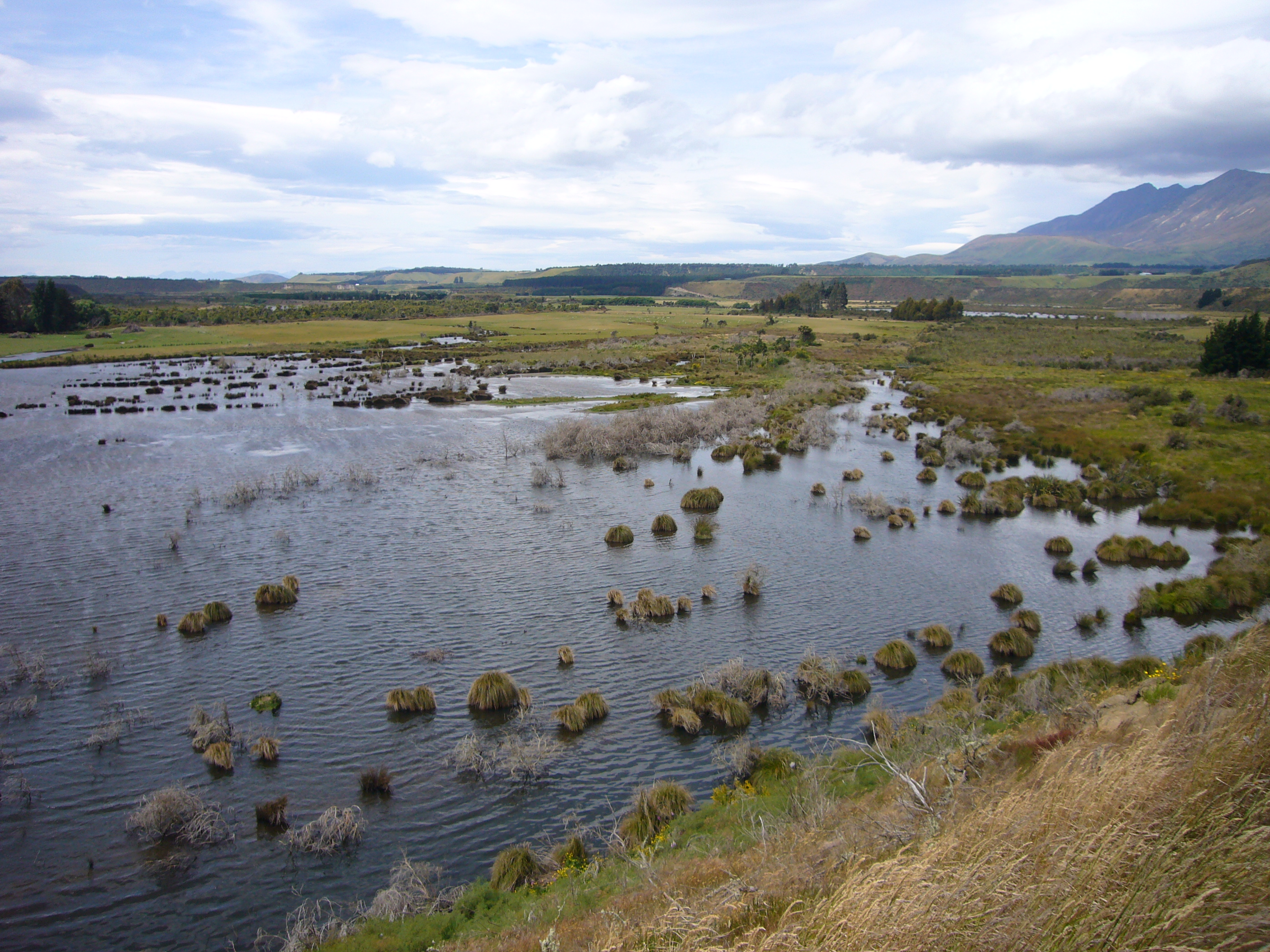 Part of Rakatu Wetlands in New Zealand looking north.